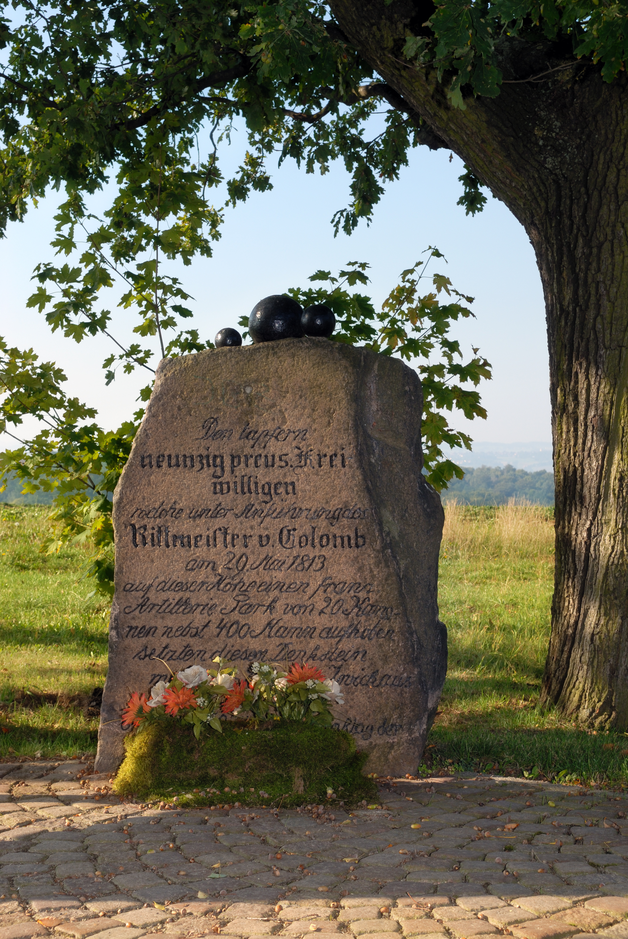 This image shows the Colomb stone ("Colombstein") in Reinsdorf, Germany.